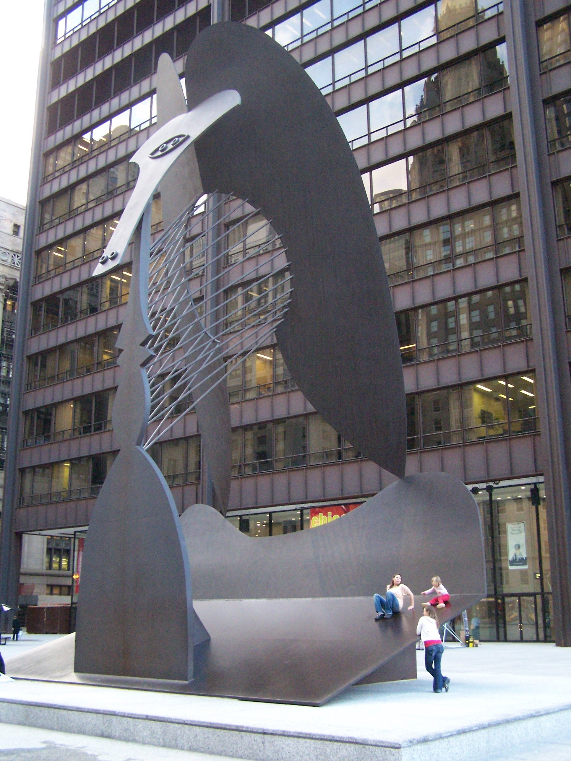 jpeg image: Picasso Sculpture, Daley Center Plaza, 50 West Washington St. Chicago, Illinois 60602